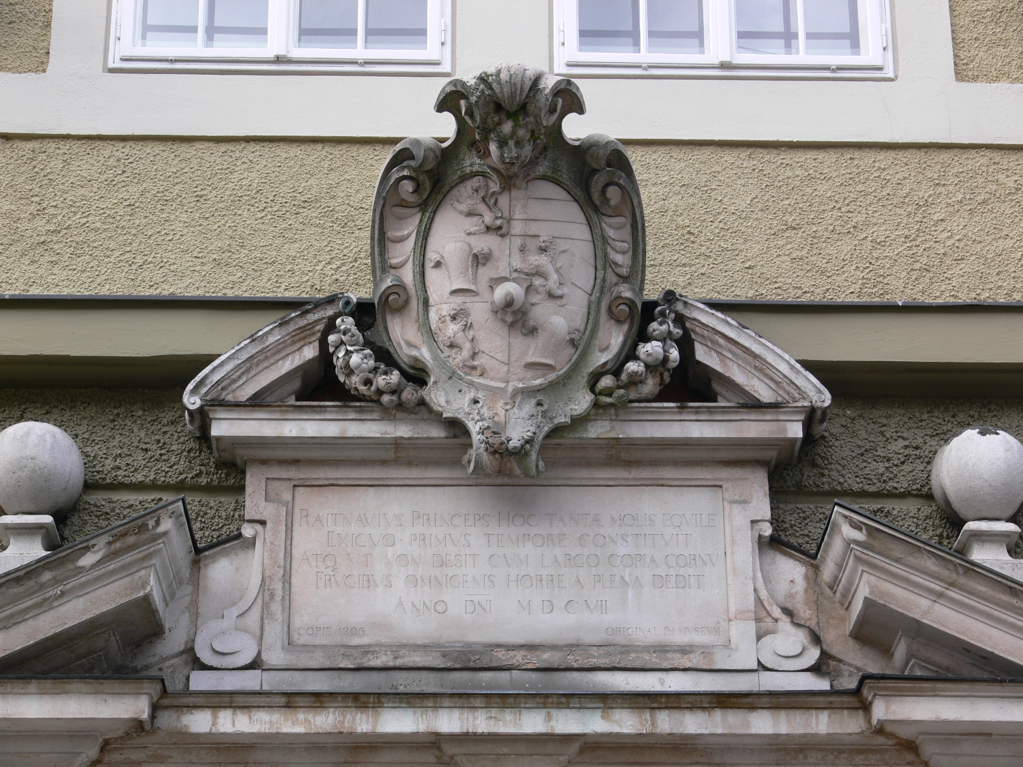 Austria, Salzburg, Großes Festspielhaus